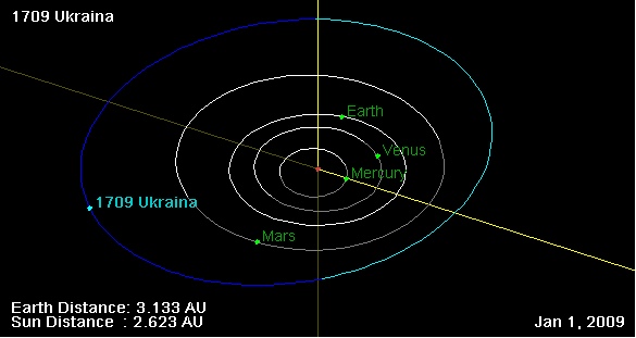 1709 Ukraina orbit, and his position on 01 Jan 2009 (NASA Orbit Viewer applet)